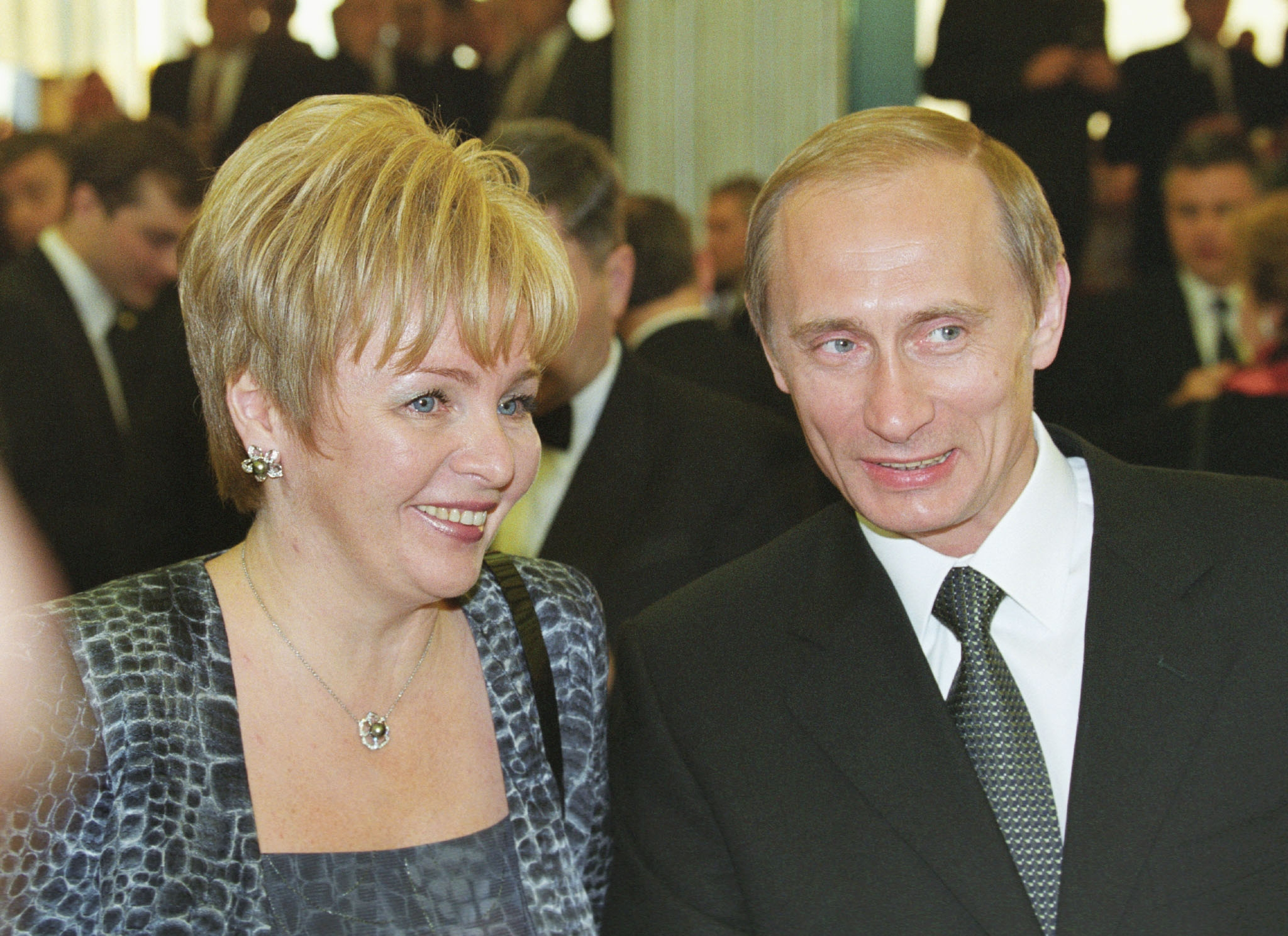 THE GRAND KREMLIN PALACE, MOSCOW. President Putin with Lyudmila Putin at a party after the inauguration ceremony.